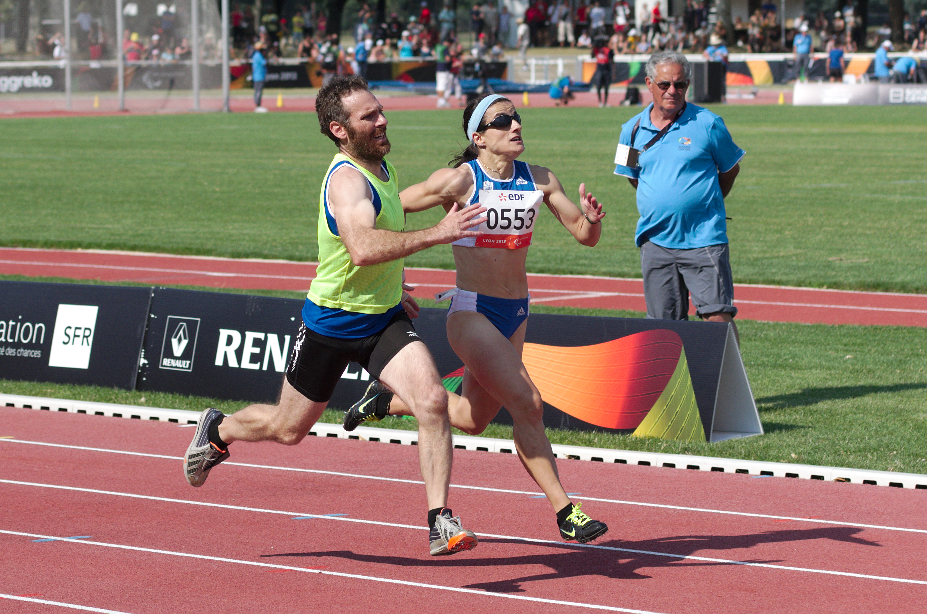 Paraskevi Kantza and Theodoros Katsonopoulos of Greece during the Women's 200m - T11 third semifinal